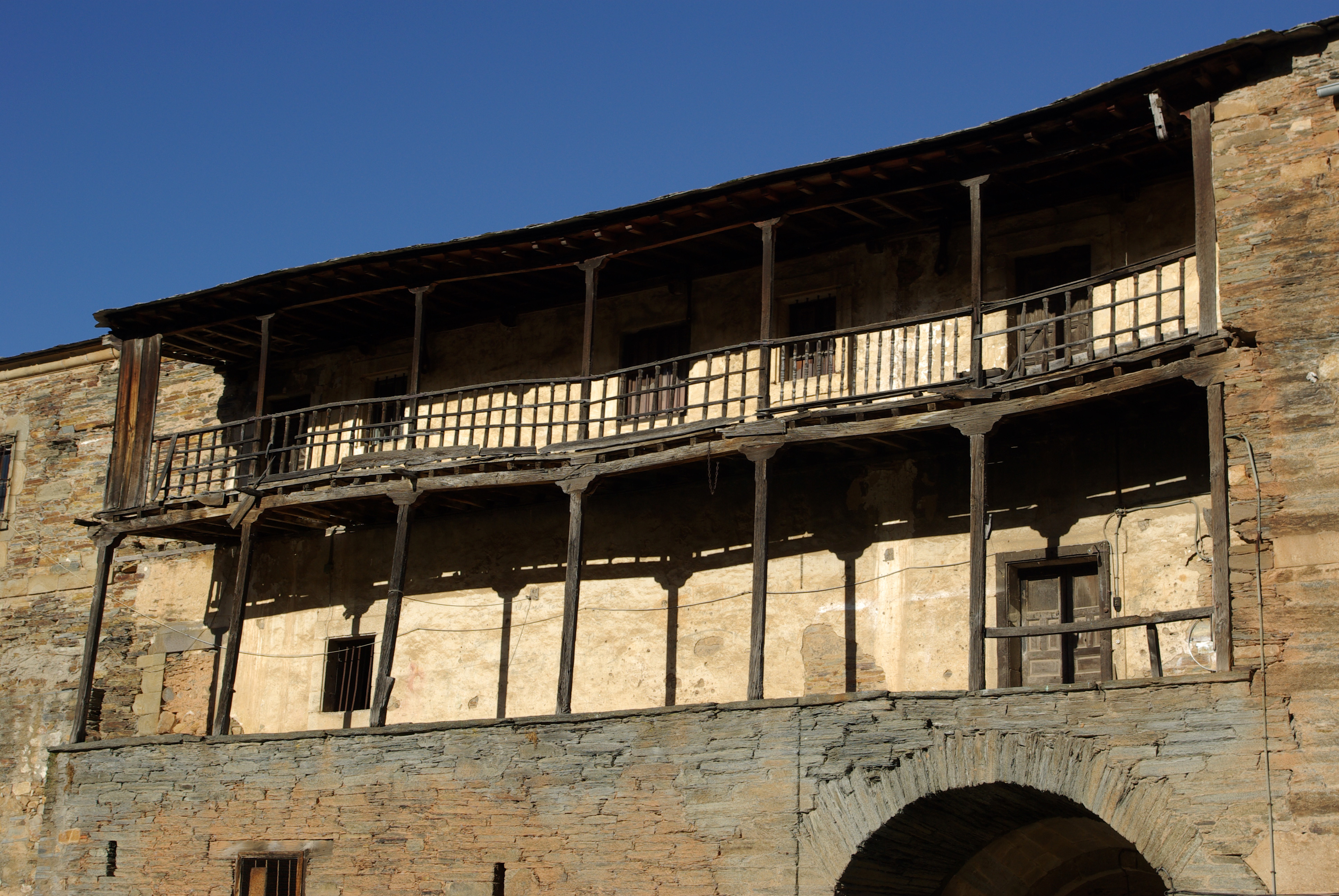 Saint Andrew of Espinareda Abbey in Vega de Espinareda (León, Spain). Detaile of Southern view of monastery.